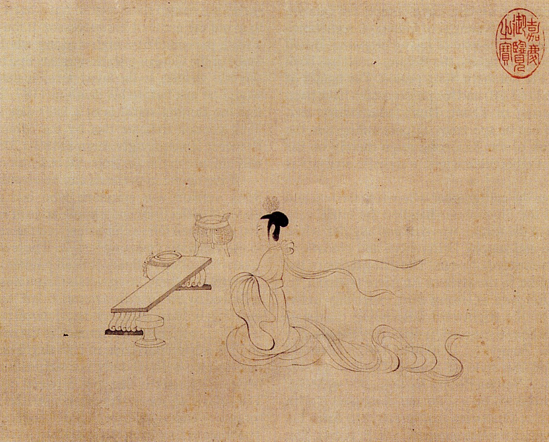 Scene 2 (Lady Fan) of the Song Dynasty Palace Museum copy of the "Admonitions Scroll", attributed to Gu Kaizhi